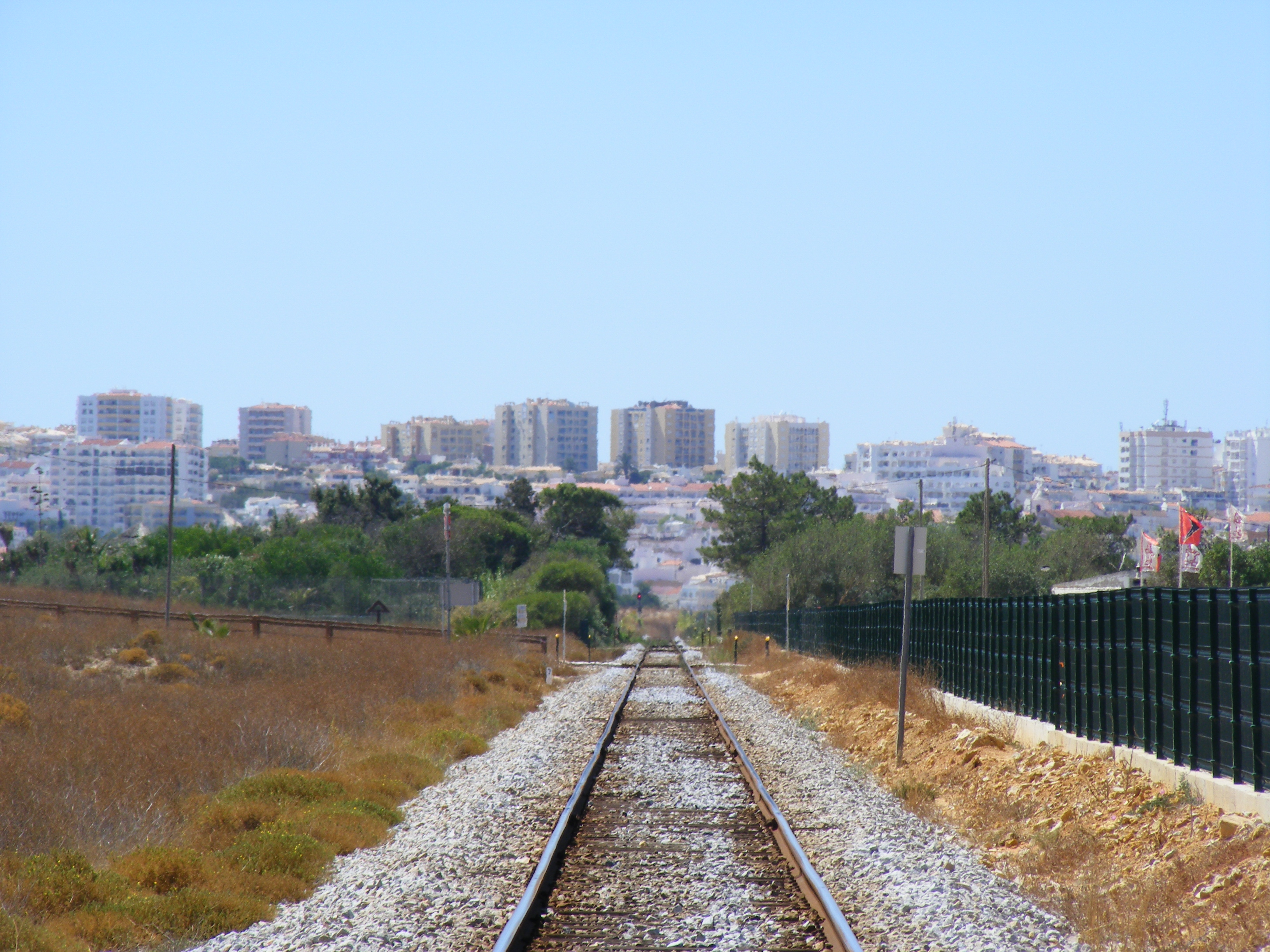 Single rail track near Lagos (Portugal)